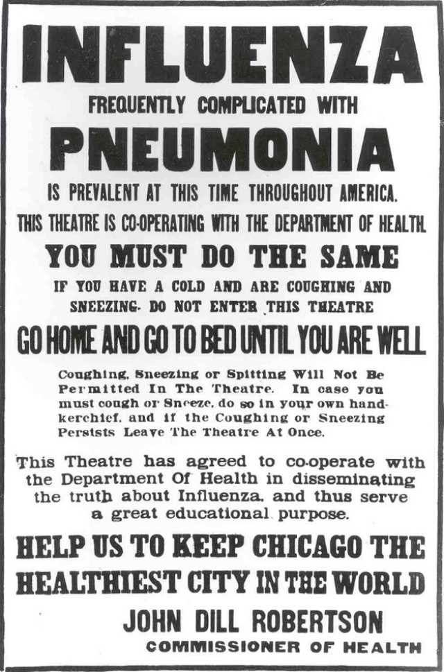 Theater warning 1918 flu pandemic in Chicago